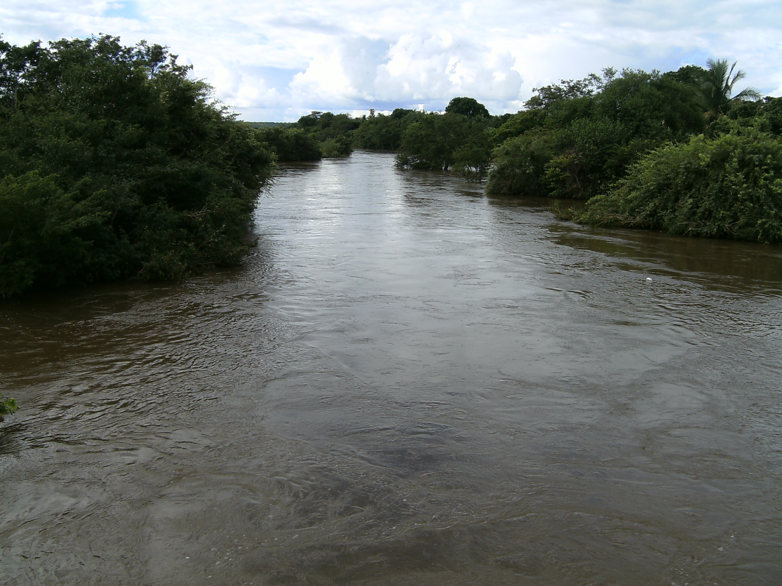 Peixe River